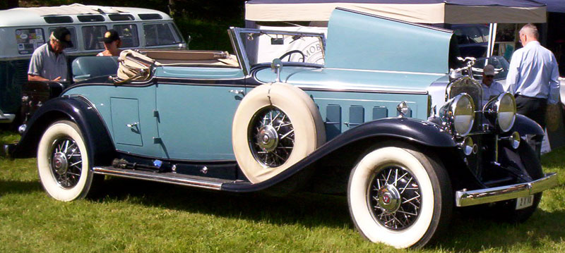 Cadillac Series 452-A V-16 Convertible Coupe 1931